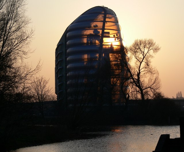 The National Space Centre, Leicester. Photographed late in the afternoon in March.